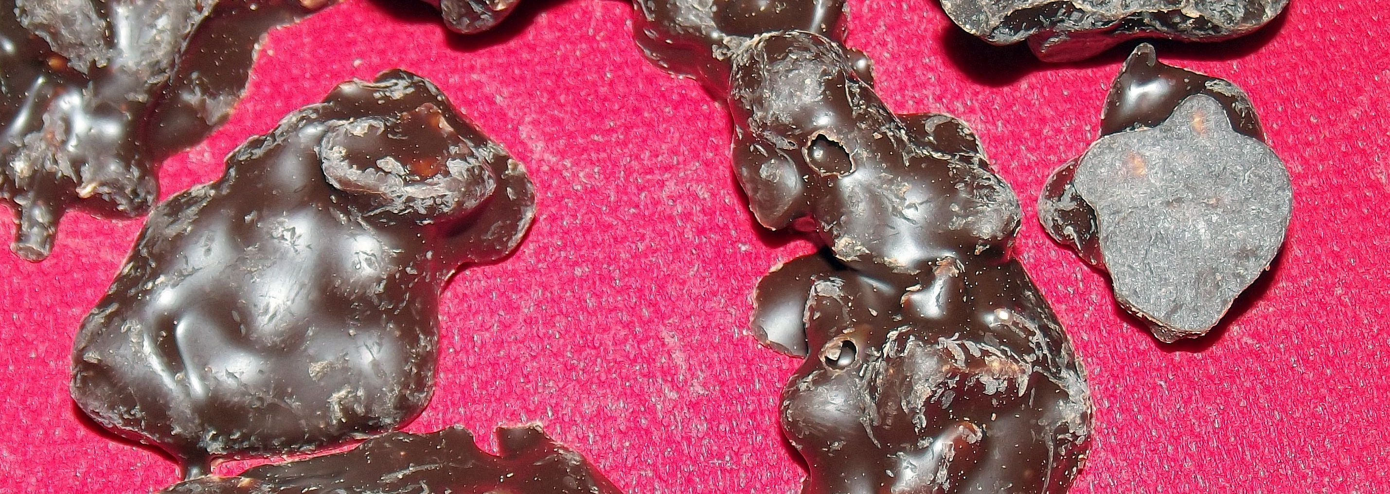 Baci di Cherasco